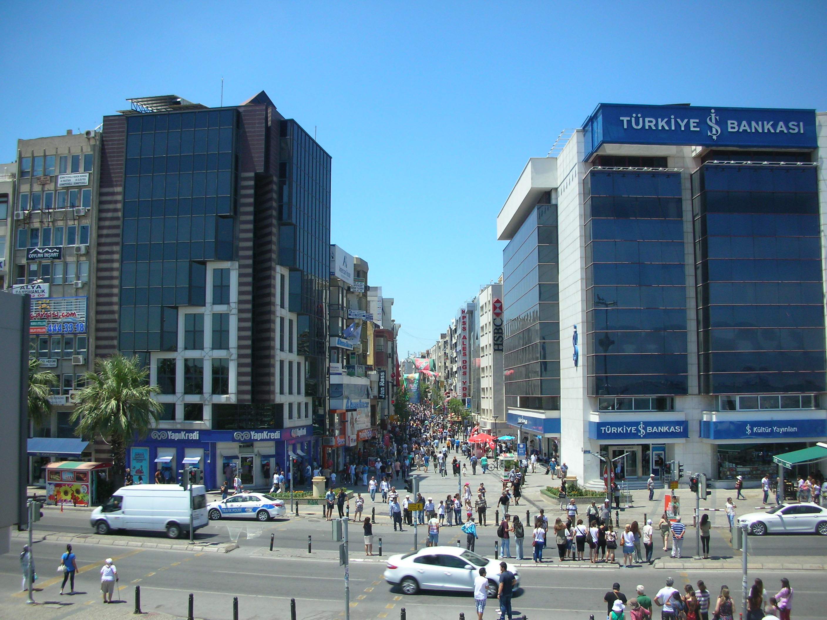 A view of Karşıyaka Bazaar Street in 2015